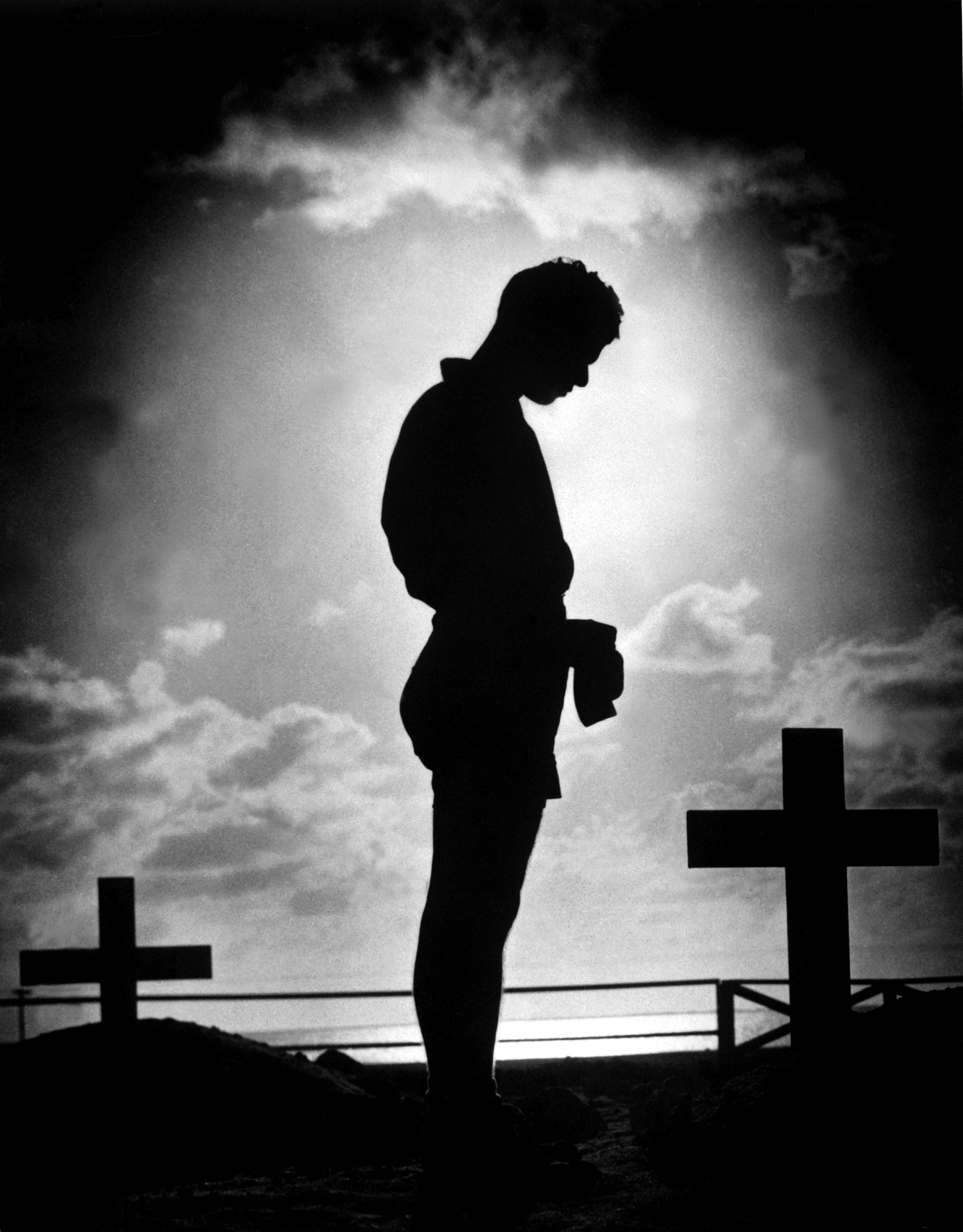 Origina caption: Silhouetted in the golden glory of a Pacific sunrise, crosses mark the graves of American boys who gave their lives to win a small atoll on the road to the Philippines. A Coast Guardsman stands in silent reverence beside the resting place of a comrade.